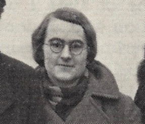 From a Portrait of three women engineers: Margaret Rowbotham, Beatrice Shilling and Margaret Partridge